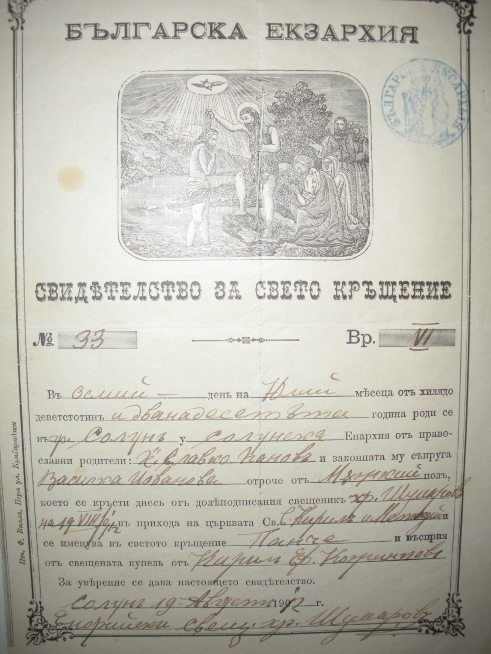 Baptism Certificate from Thessaloniki Exarchate eparchy